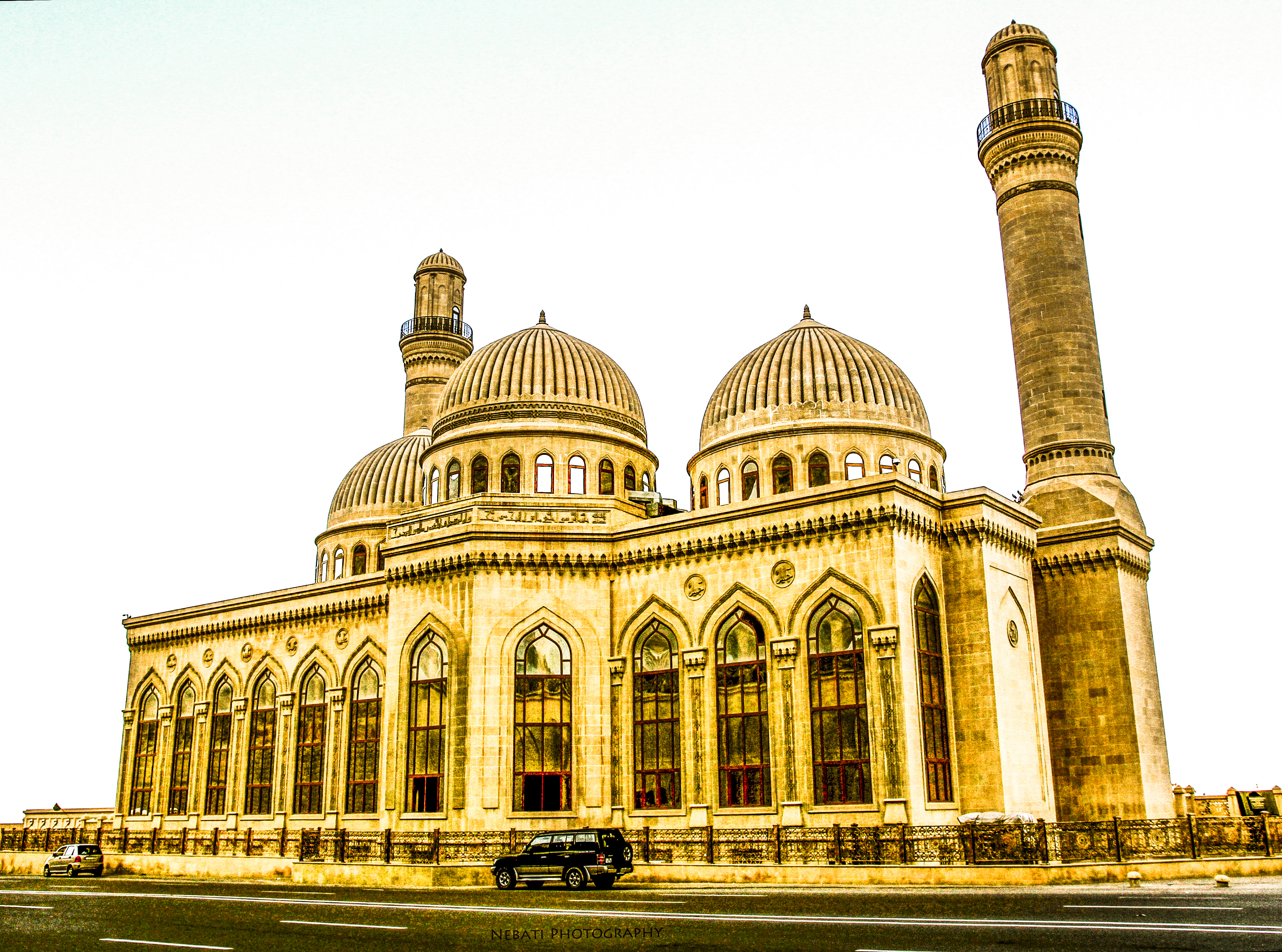 bibiheybat1